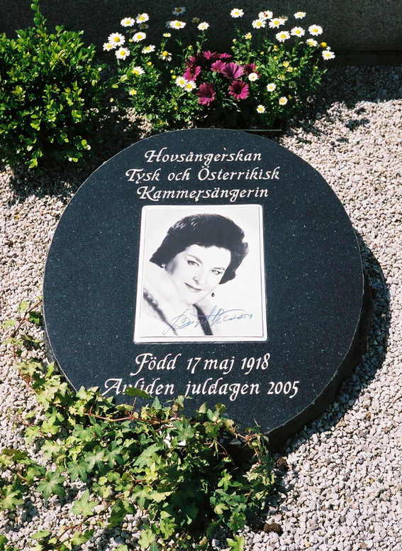 The tombstone of Birgit Nilsson (1918-2005), world-known Swedish opera singer, at the cemetery of Västra Karup, Skåne.